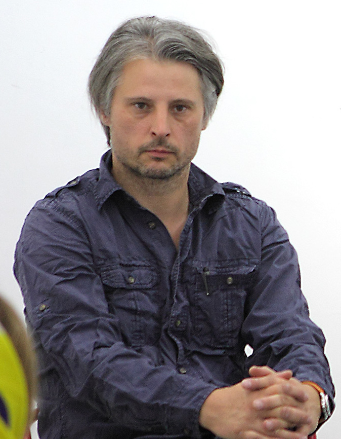 Sebastian Bieniek, artist talk during his „Bal Umagbe La“ exhibition opening at the Kandovan Building of the Pajman Foundation in Tehran/Iran. 13th of august 2018 (visitors)